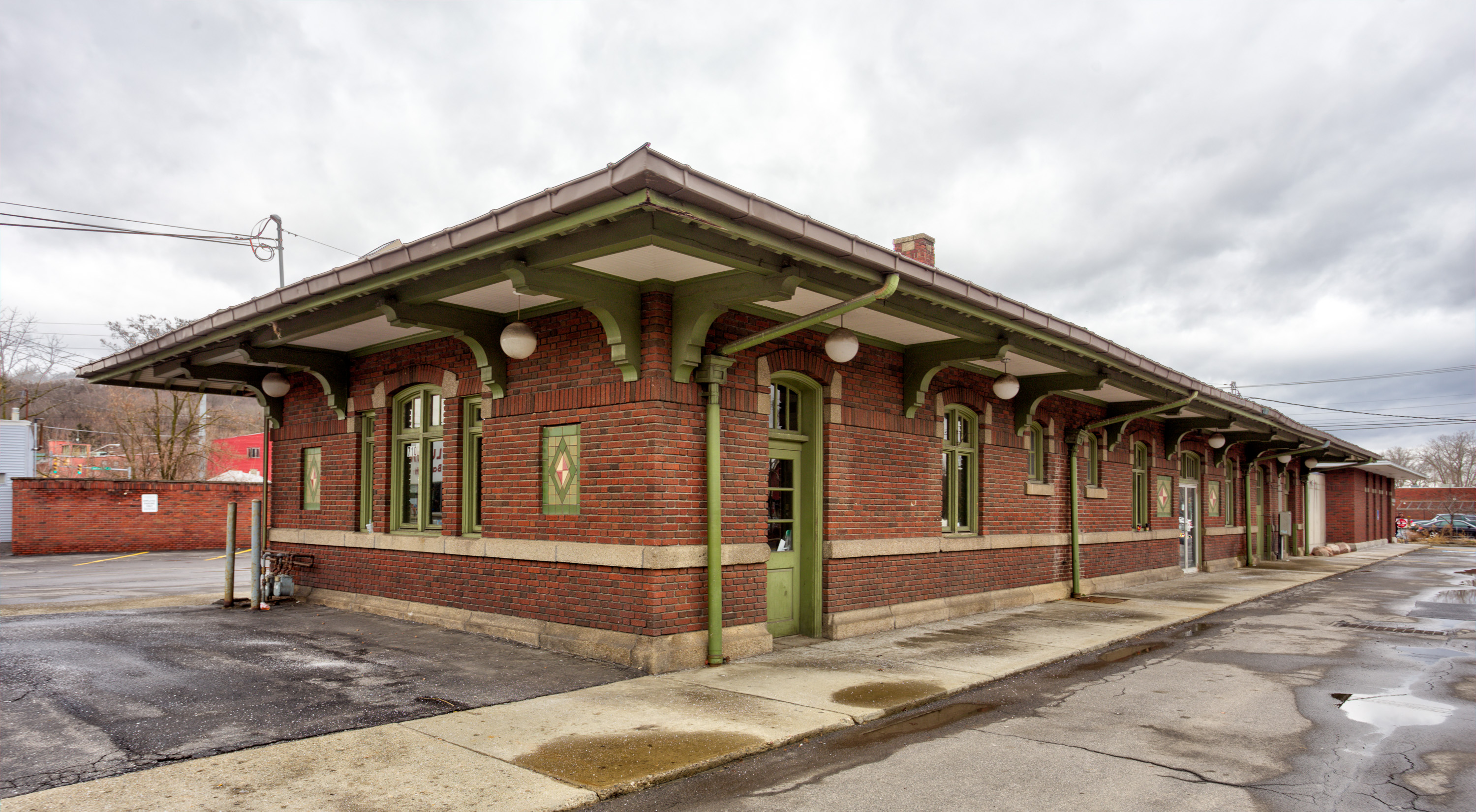 former Delaware, Lackawanna & Western Railroad Station at 701 W. Seneca St, Ithaca, New York. 1912, Frank J. Nies. It was designated a city landmark in 2018.